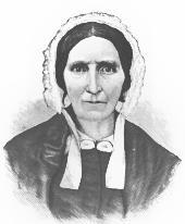 Hannah Kirby, Hillsdale MI c 1879